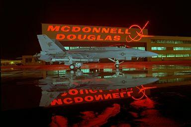 F/A-18E in front of McDonnell Douglas factory in St-Louis